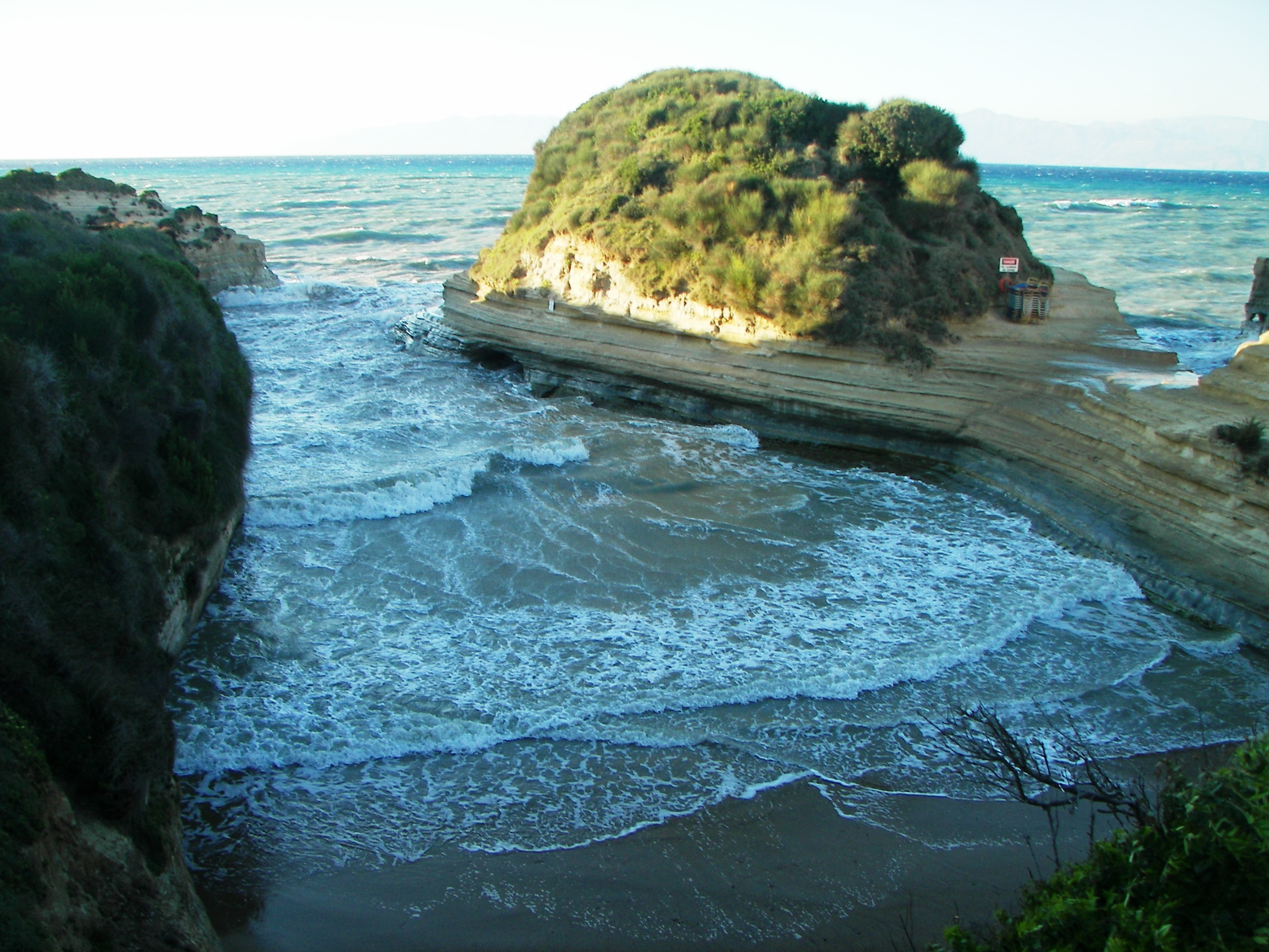 Please see filename